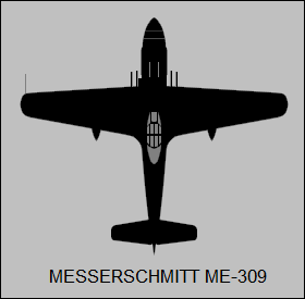 Top silhouette view of the Messerschmitt Me 309.